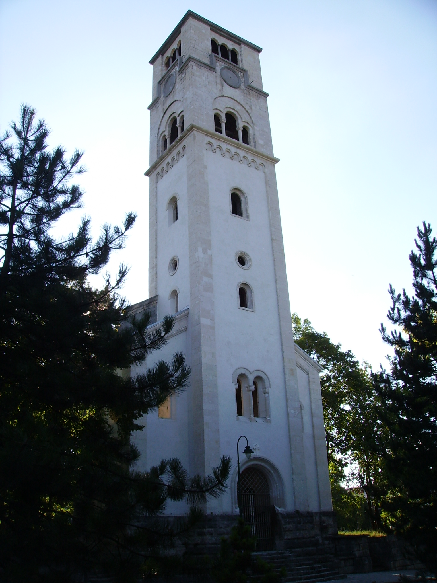 Bihać, Bihačka Kula.